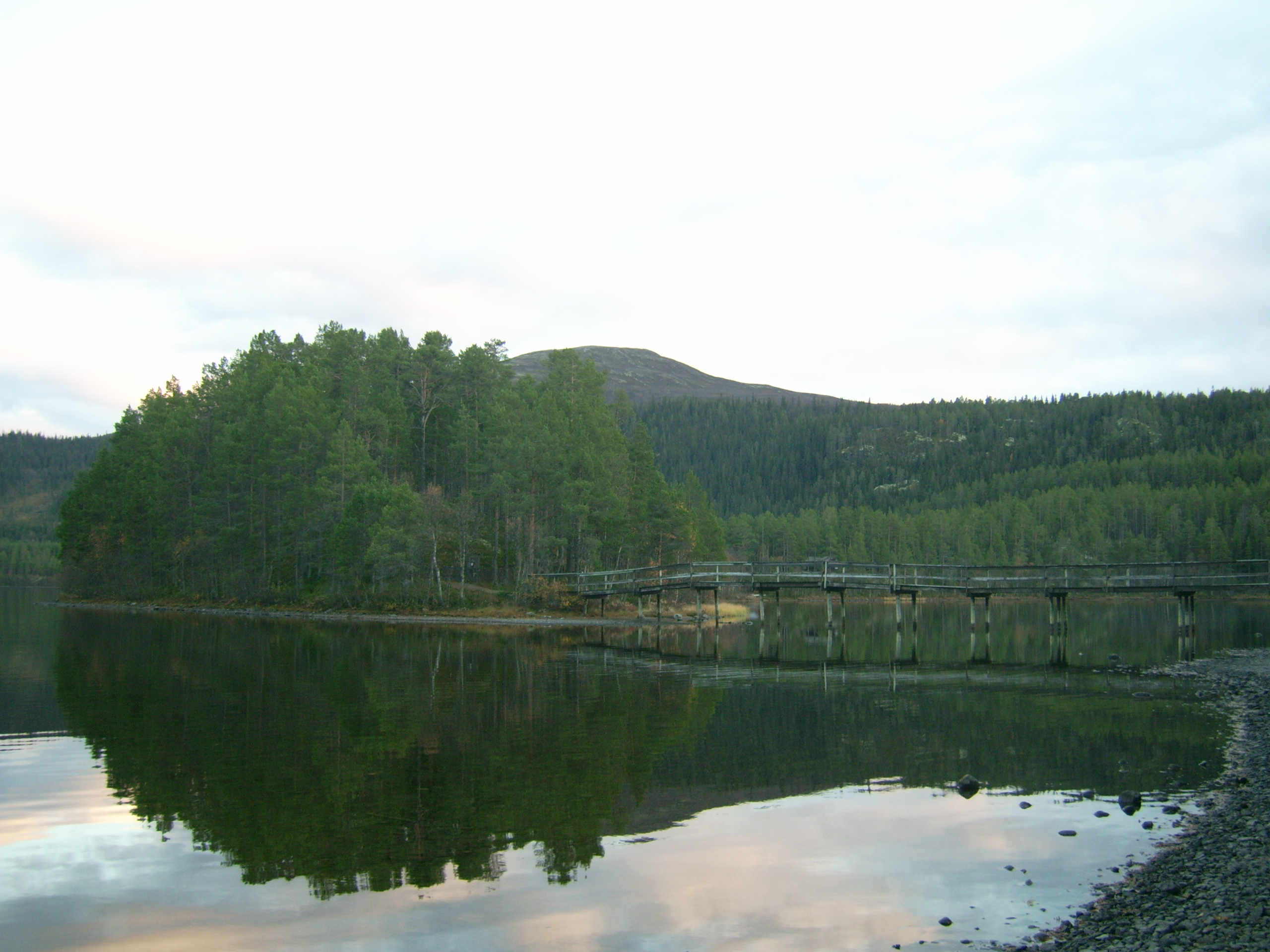 Espedalen Mountain Church Graveyard, Sør-Fron, Norway The graveyard-peninsula at Espedalen mountain church, and the bridge leading too it.